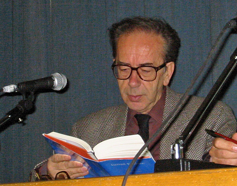 Ismail Kadare during a literary reading in Zurich.